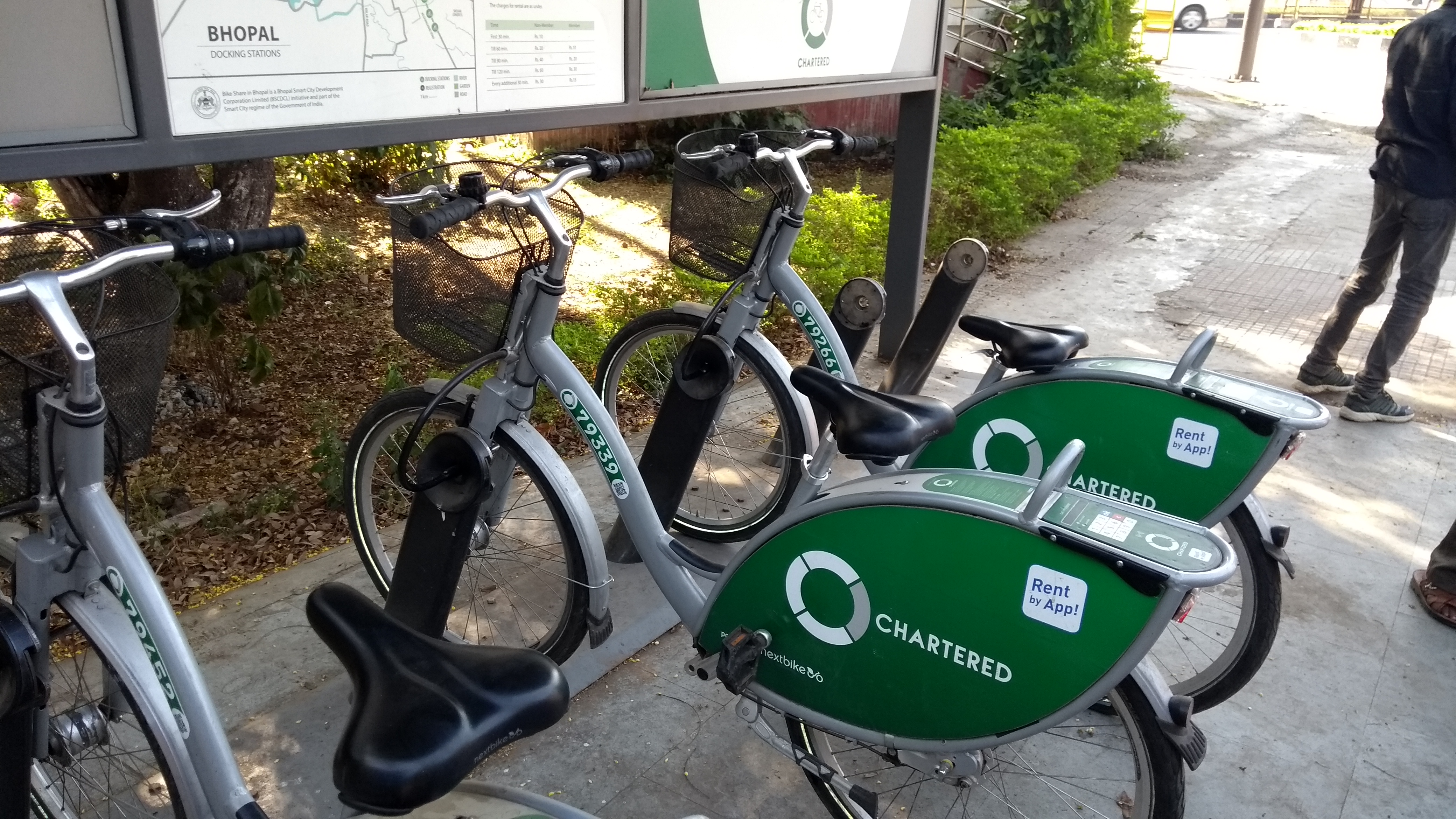 cycle sharing system in Bhopal